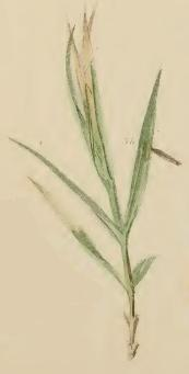 Stainton’s Natural History of the Tineina (1855–1873): Coleophora solitariella sprig of Stellaria holostea with mined leaves